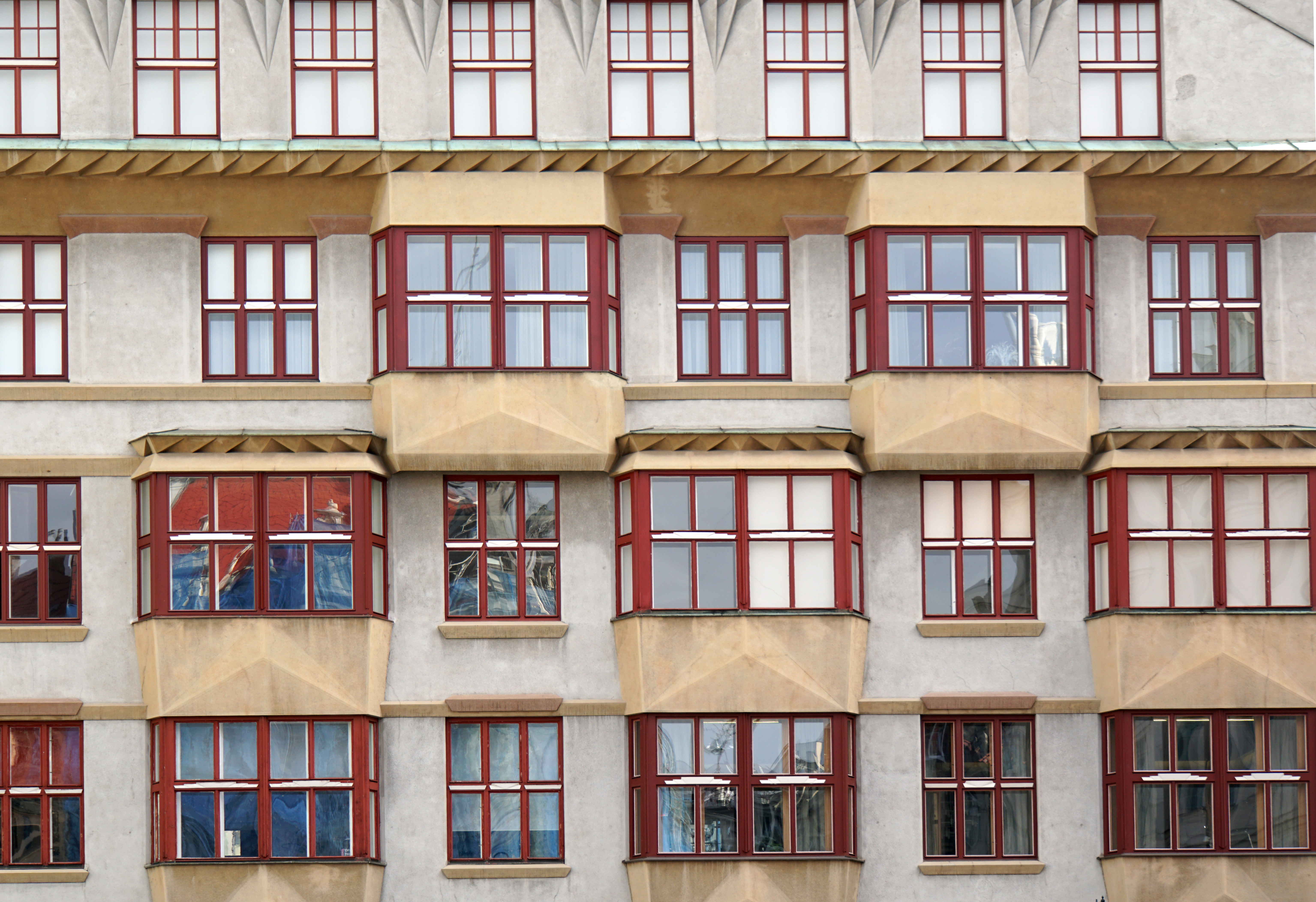 Facade of a building in Cubist style nearby the Jewish Quarter of Prague. Some architectural details - notice the planes and angles on the sides of the building and fronts of balconies and rooftops. Cubist architecture is a style of painting that represents things simultaneously in different dimensions and apply it to a real 3D object.